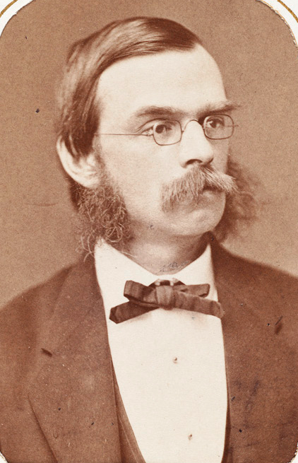 Massachusetts State Senator George Francis Richardson (1829-1912)